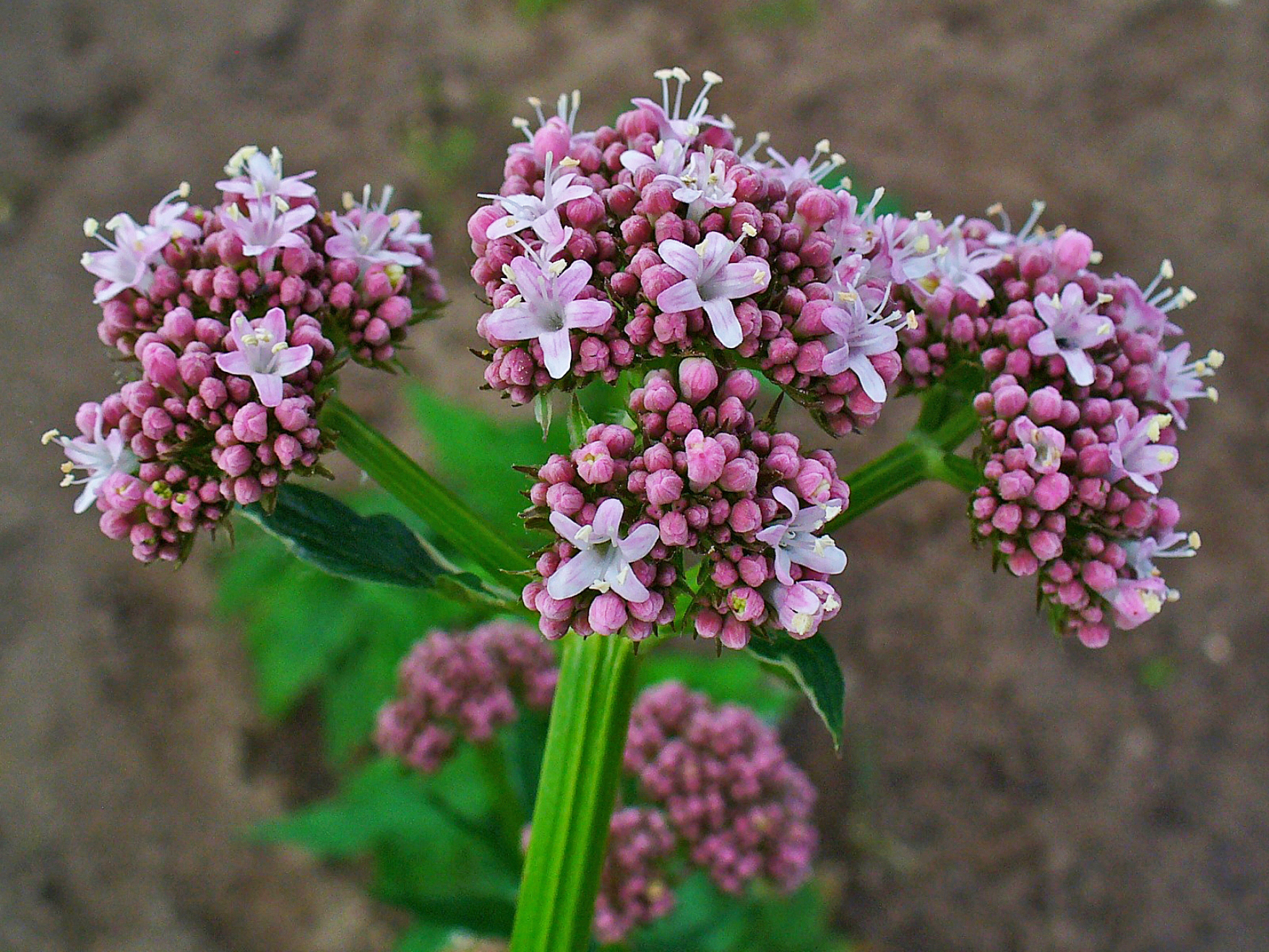 Valeriana officinalis, Valerianaceae, Valerian, inflorescence. Botanical Garden KIT, Karlsruhe, Germany.